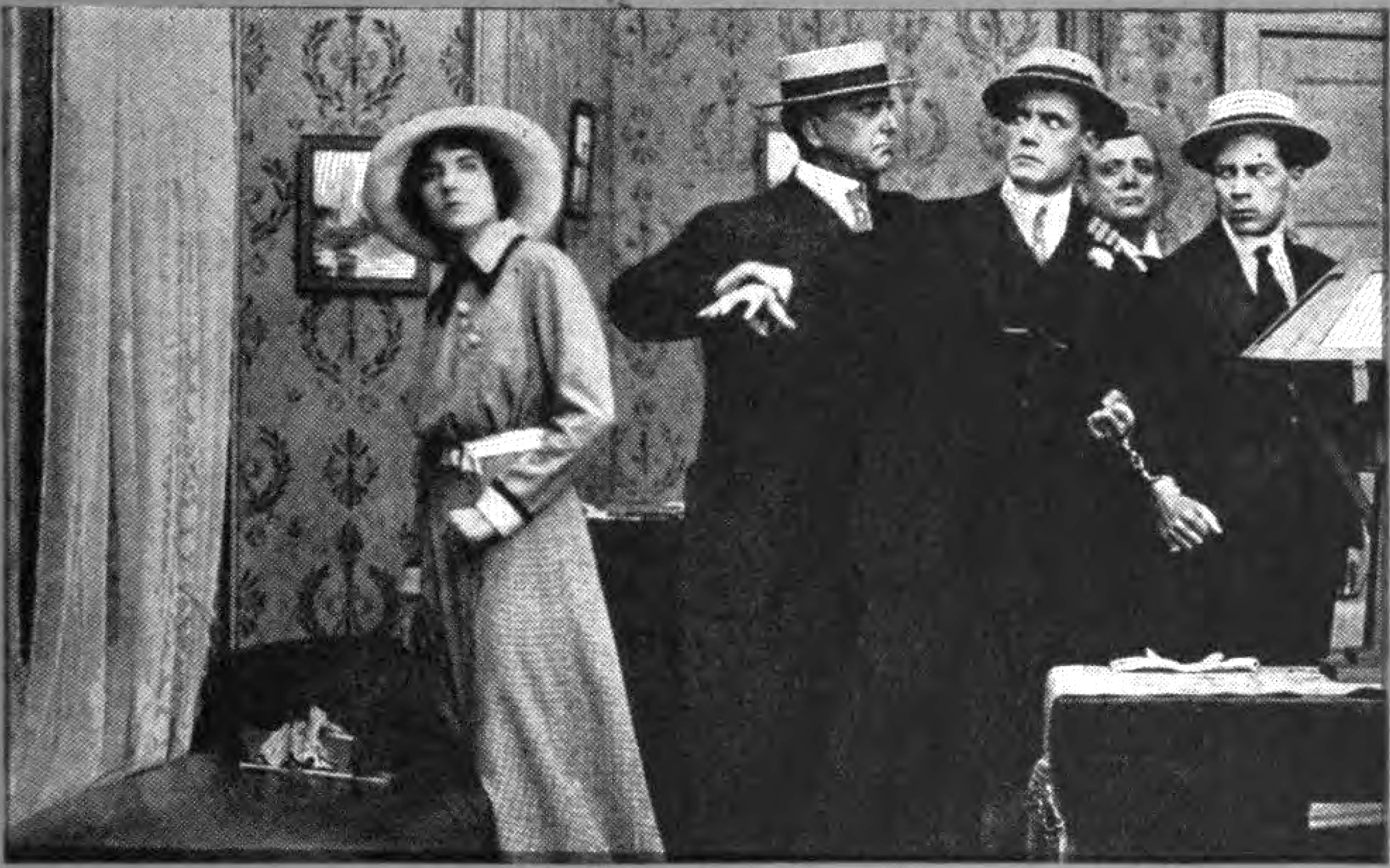 A still from the film The Substitute Stenographer (1913), showing Laura Sawyer as the detective, Kate Kirby.